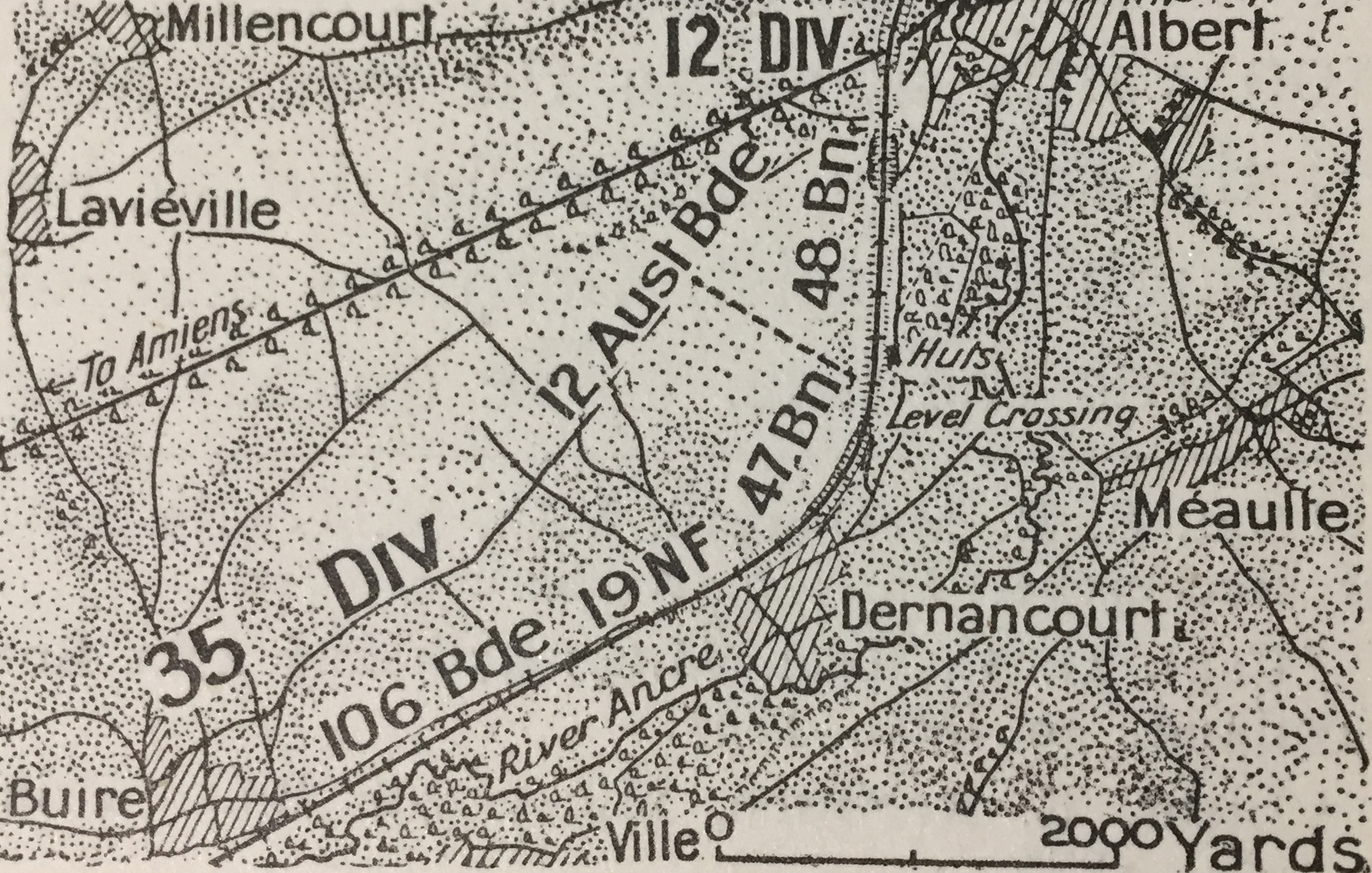 Map of the initial Allied dispositions of the First Battle of Dernancourt 1918